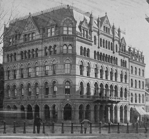 Accession No.: 06_11_000361 Title: Hotel Boylston, Boston Series: Stereoscopic Studies. American Scenery Local Subject: Hotels Subject: Boston (Mass.) Format: Derived from stereograph BPL Department: Print